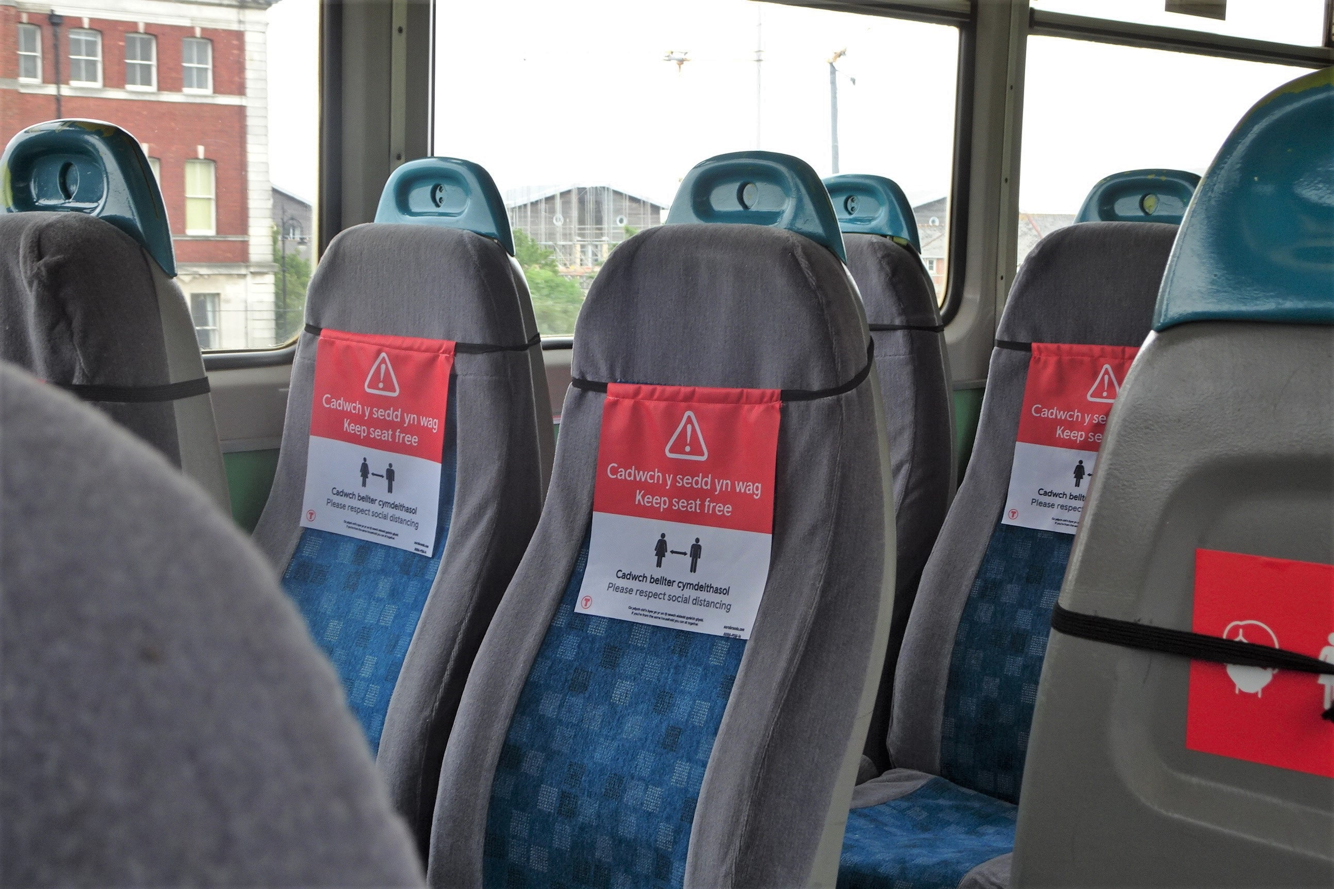 "Cadwch y sedd yn wag / Keep seat free" temporary signs on Transport for Wales train (passing Barry Docks Offices) ensuring social distancing during the 2020 coronavirus pandemic